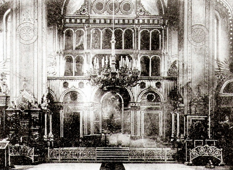 Iconostasis in the Saint Catherine cathedral